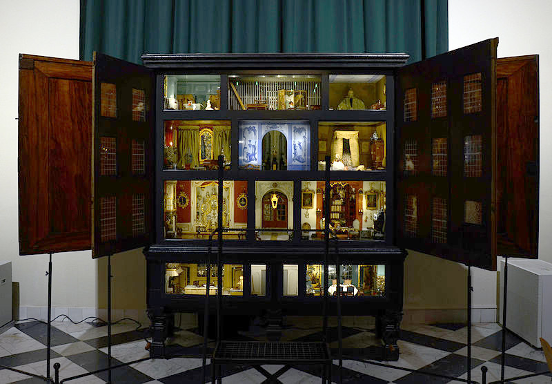 Dollhouse by Sara Rothé (1699-1751, Amsterdam) now displayed in the Frans Hals Museum in Haarlem.